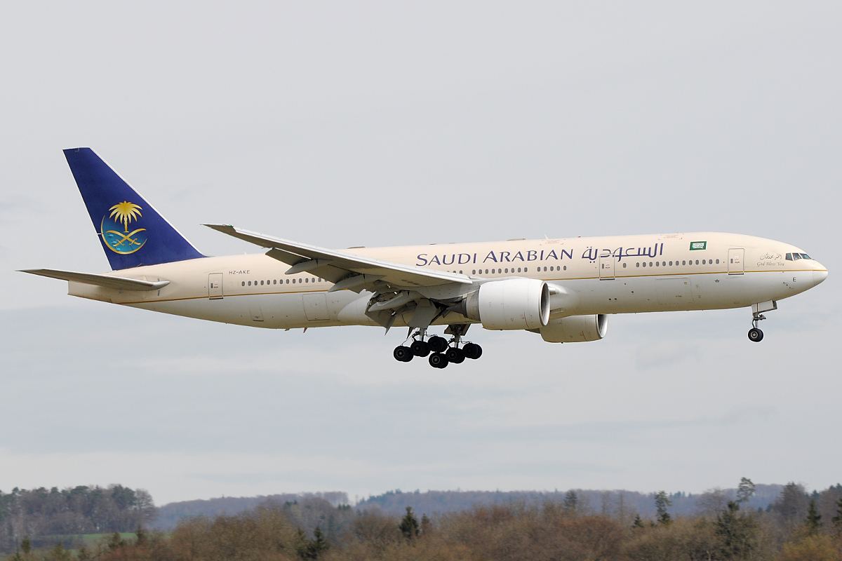 A Saudi Arabian Airlines Boeing 777-200ER landing in Zurich-Kloten